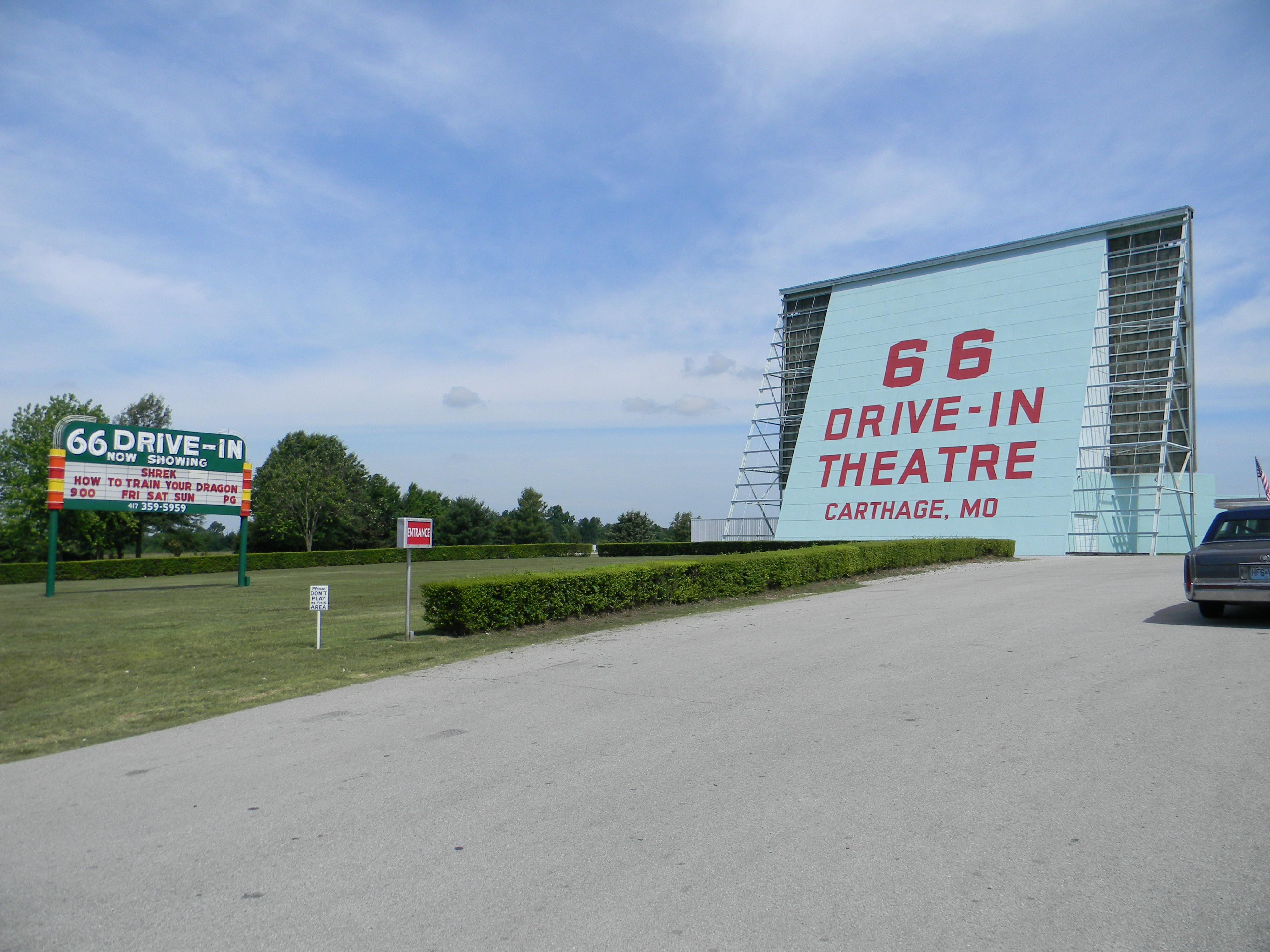 Marquée and rear of projection screen of Route 66 Drive-in in Carthage, Missouri